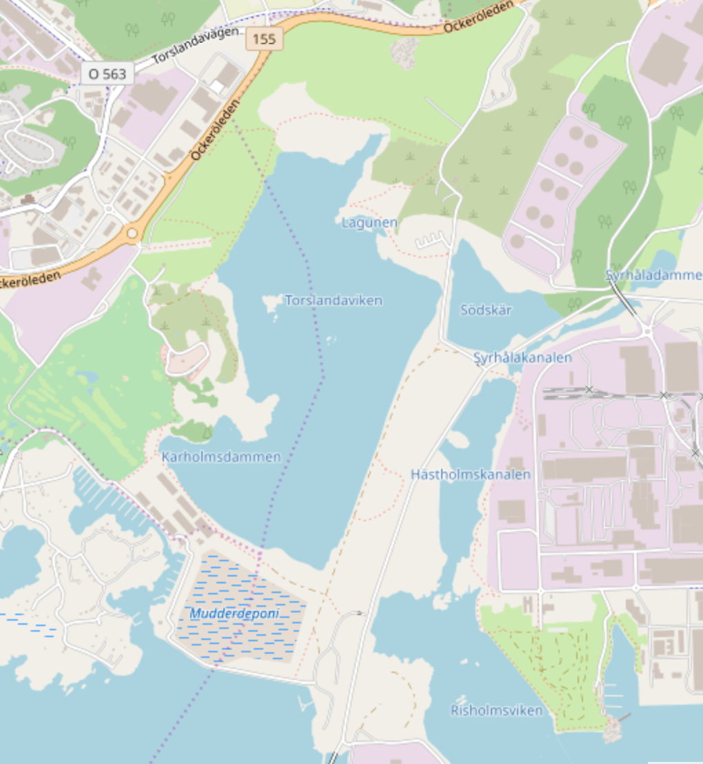 Map over Torslandaviken.